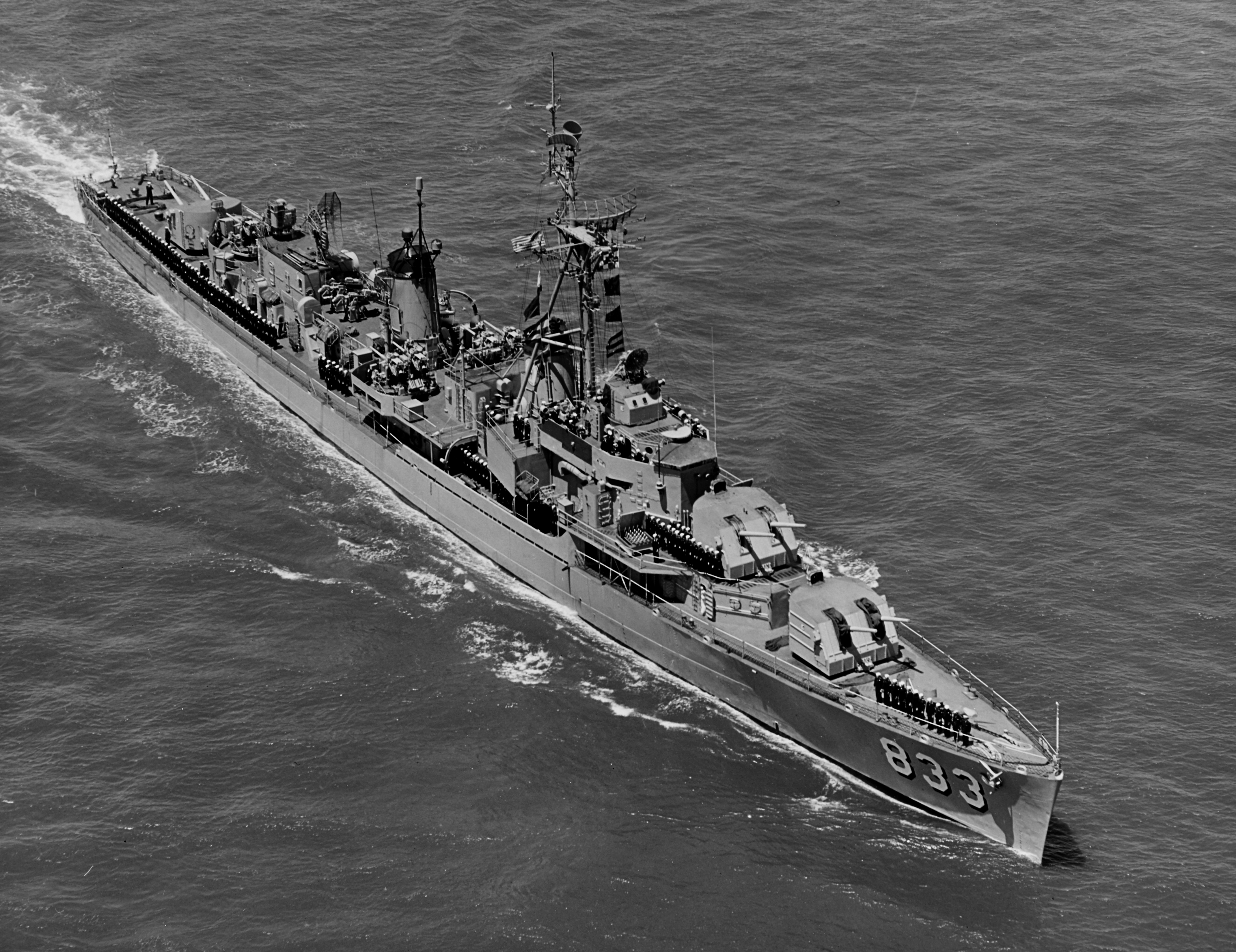 The U.S. Navy radar picket destroyer USS Herbert J. Thomas (DDR-833) underway in San Francisco Bay, California (USA), on 13 June 1957, during the review of the First Fleet by Fleet Admiral Chester W. Nimitz.